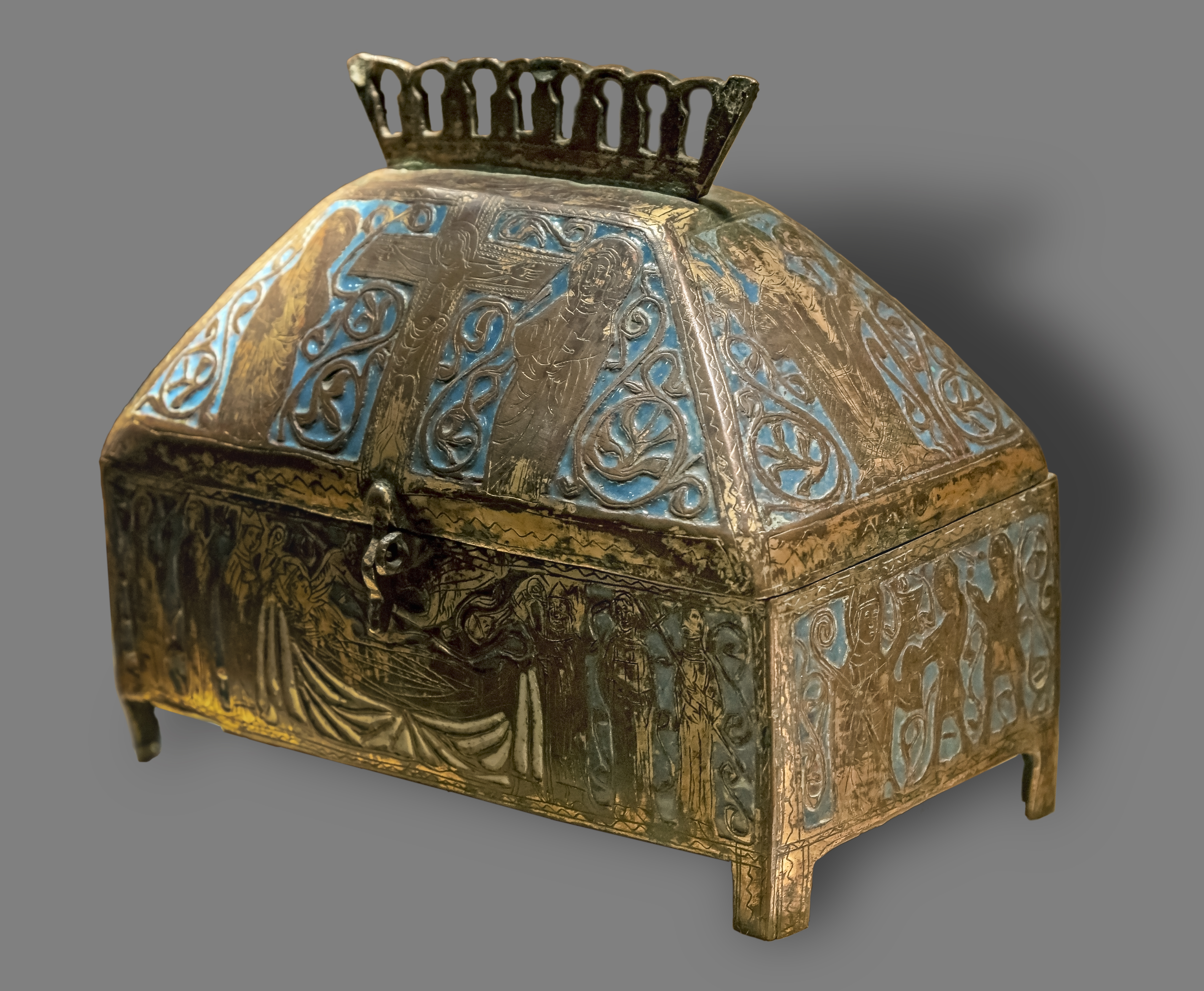 At the top Christ on the cross with Mary and John; below, the death of St-Exuperius.